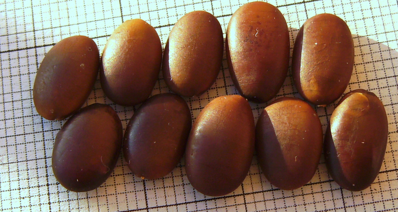 Ceratonia siliqua seeds from Barcelona